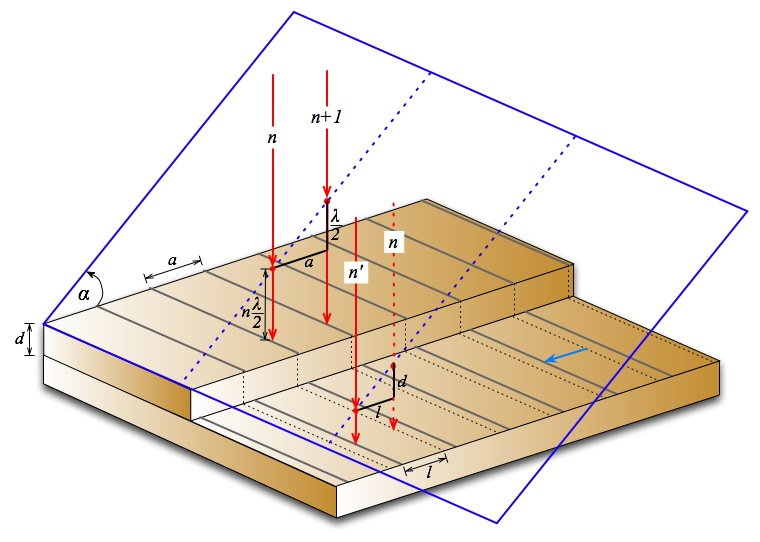 Principle idea of Tolansky-Method for measurement of layer thickness by interferometry.